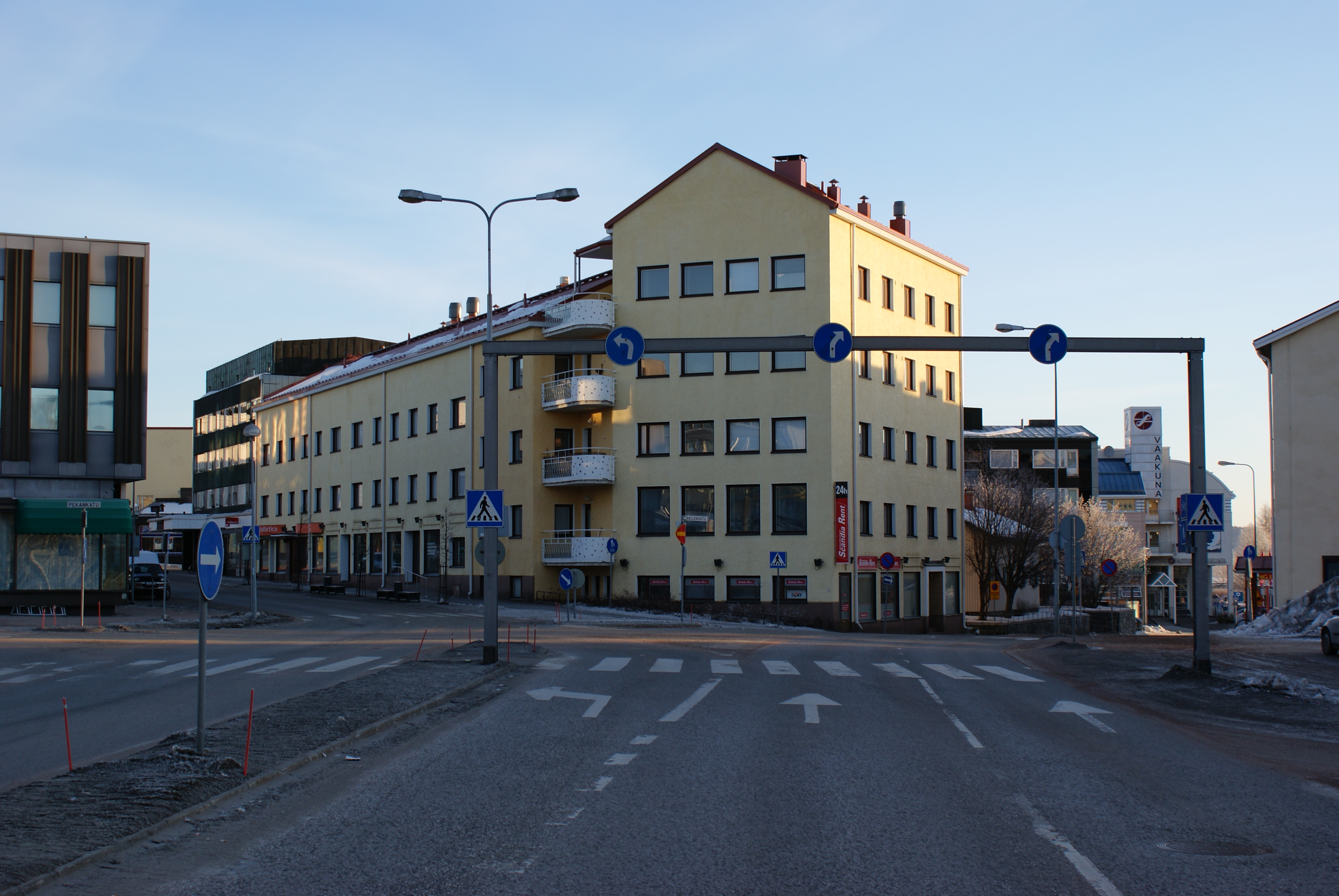 Valtakatu street of Rovaniemi, Finland.